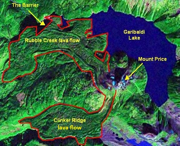 Map of volcanic features around Garibaldi Lake.